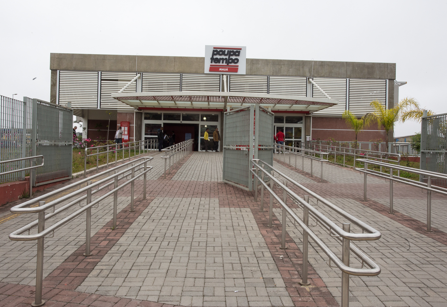 O Governador de São Paulo, durante visita Poupatempo. Local: Mauá. Data: 05/09/2016 Foto: Ciete Silvério/A2IMG